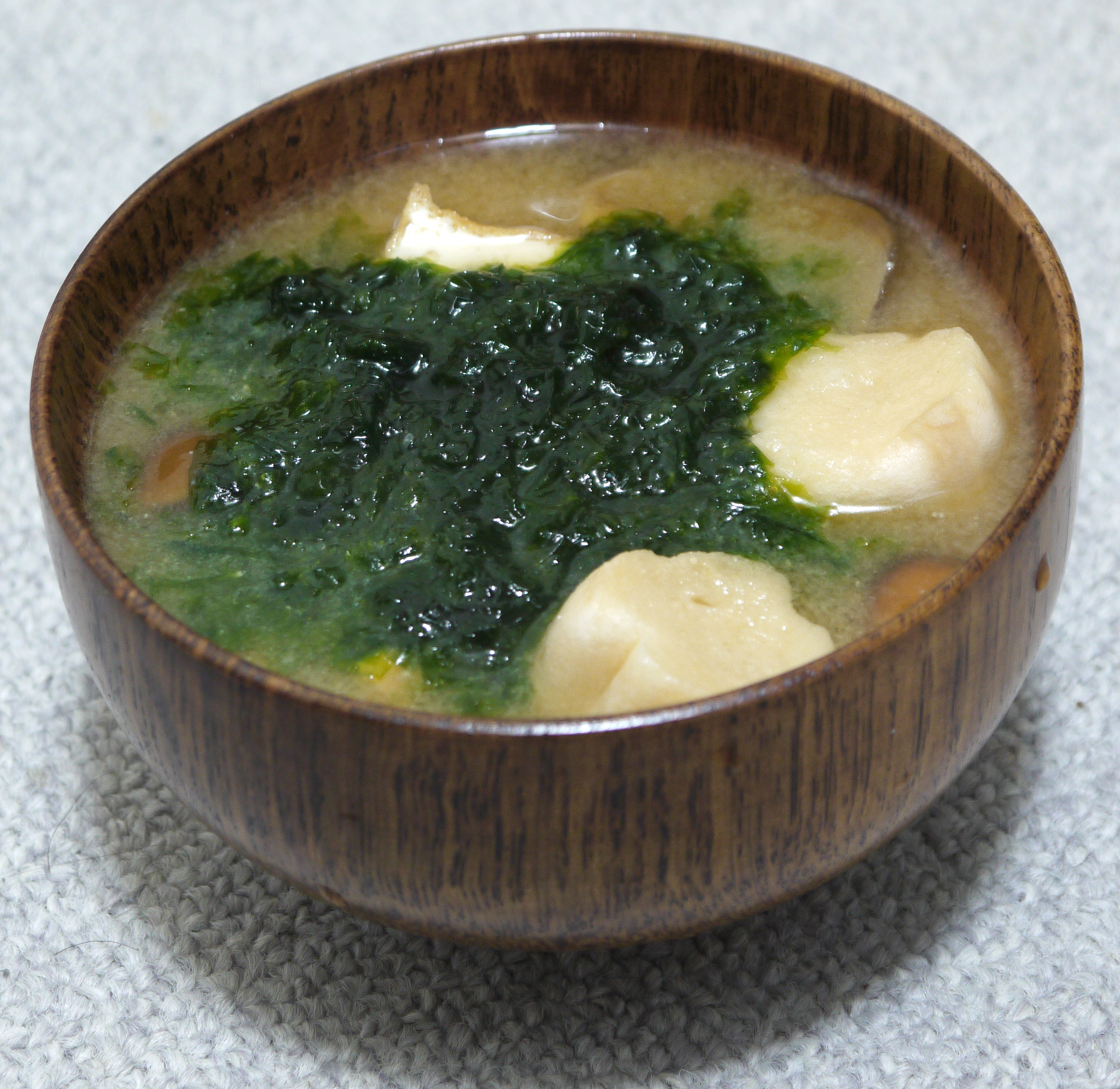 == Licensing: ==